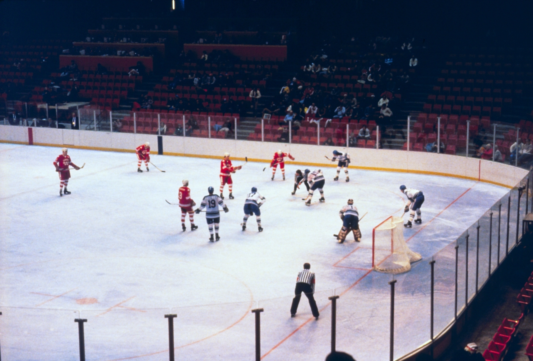 An ice Hockey Match during the 1980 Winter Olympics in Lake Placid.